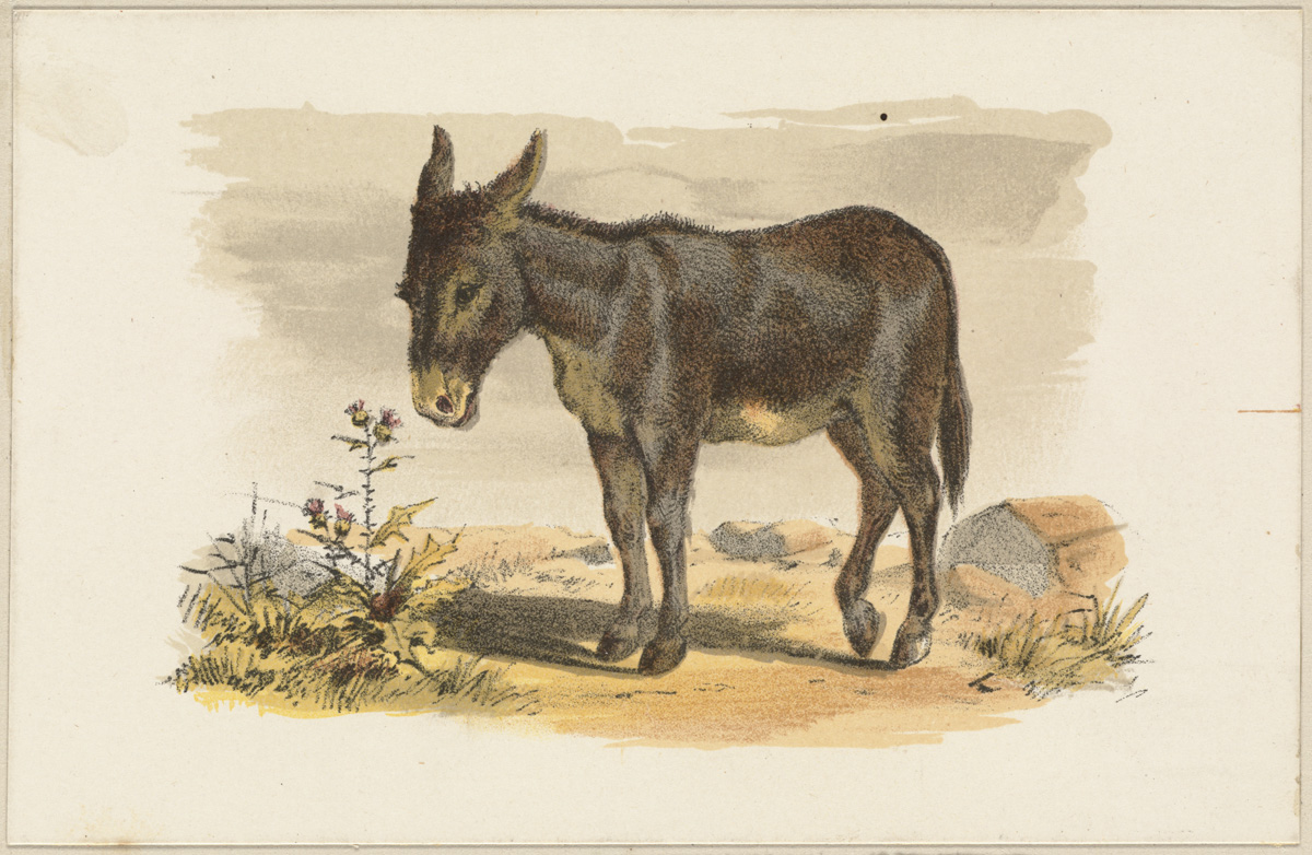 File name: 07_11_001209 Title: Donkey Creator/Contributor: L. Prang & Co. (publisher) Date issued: 1861-1897 (approximate) Copyright date: Physical description note: Genre: Chromolithographs Location: Boston Public Library, Print Department Rights: No known restrictions Flickr data on 2011-08-04: Camera: Sinar AG Sinarback 54 FW, Sinar m License: CC BY 2.0 User: Boston Public Library BPL